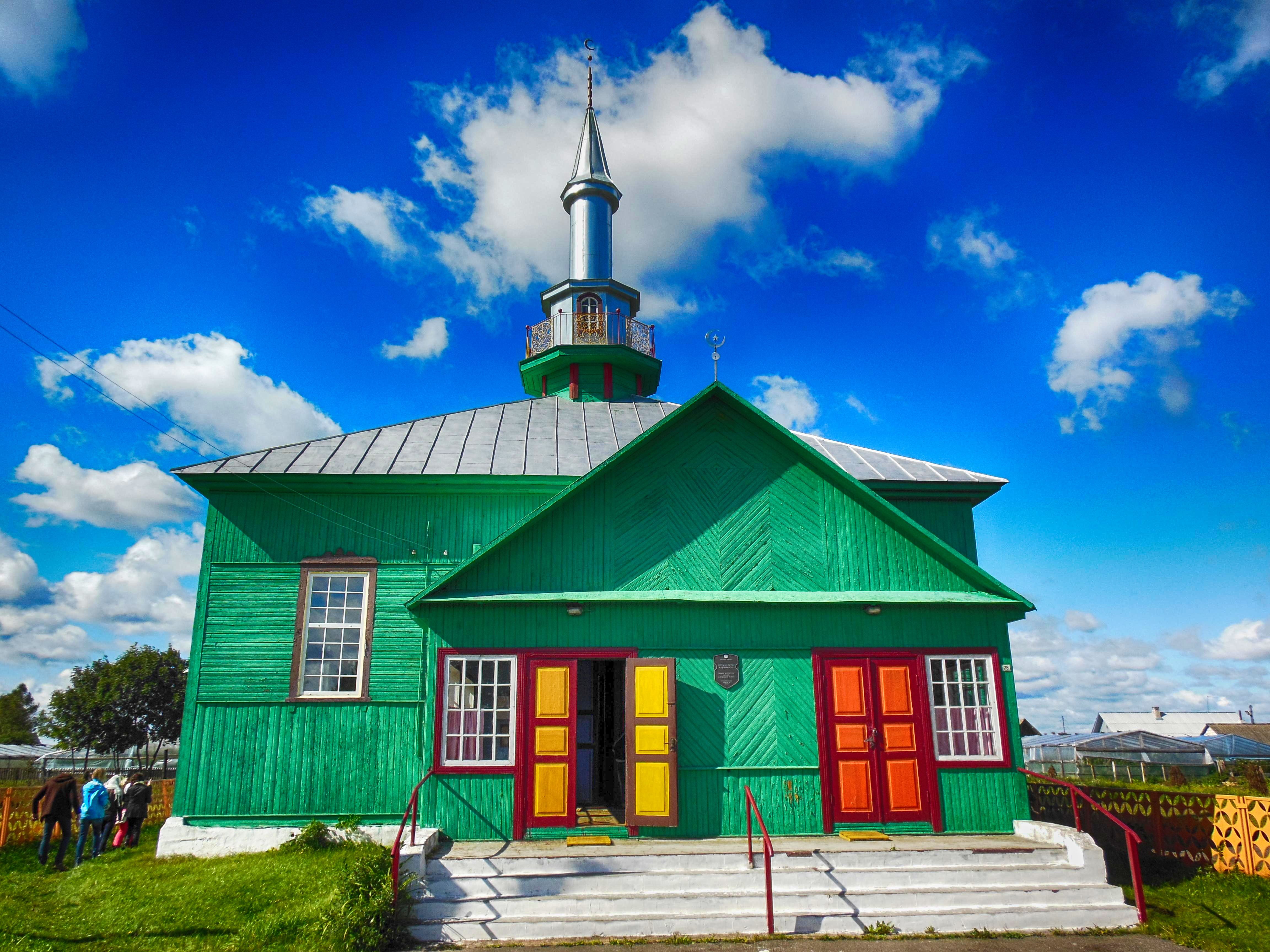 Беларуская (тарашкевіца): Мячэт. г. Іўе This is a photo of Belarusian heritage monument. Reference number: 413Г000288 ( WLM)